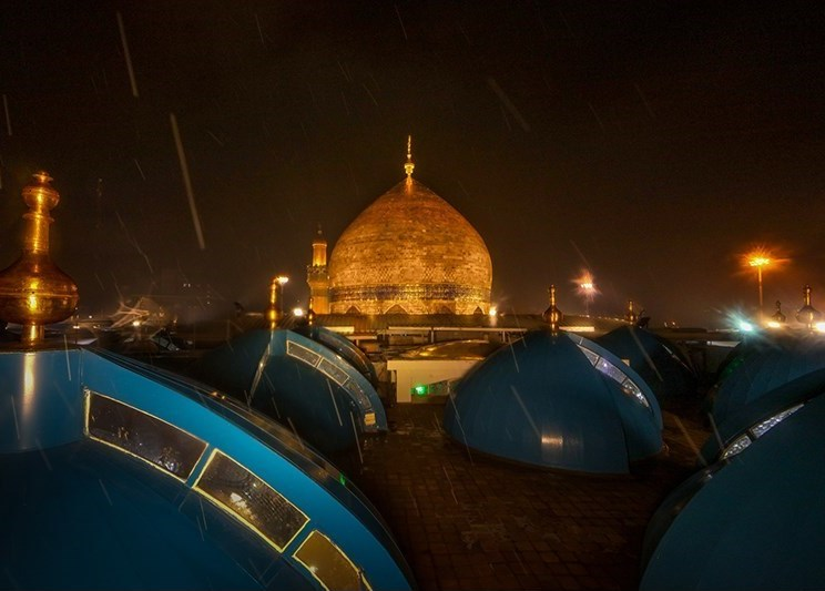 Dome of Imam Ali Mosque